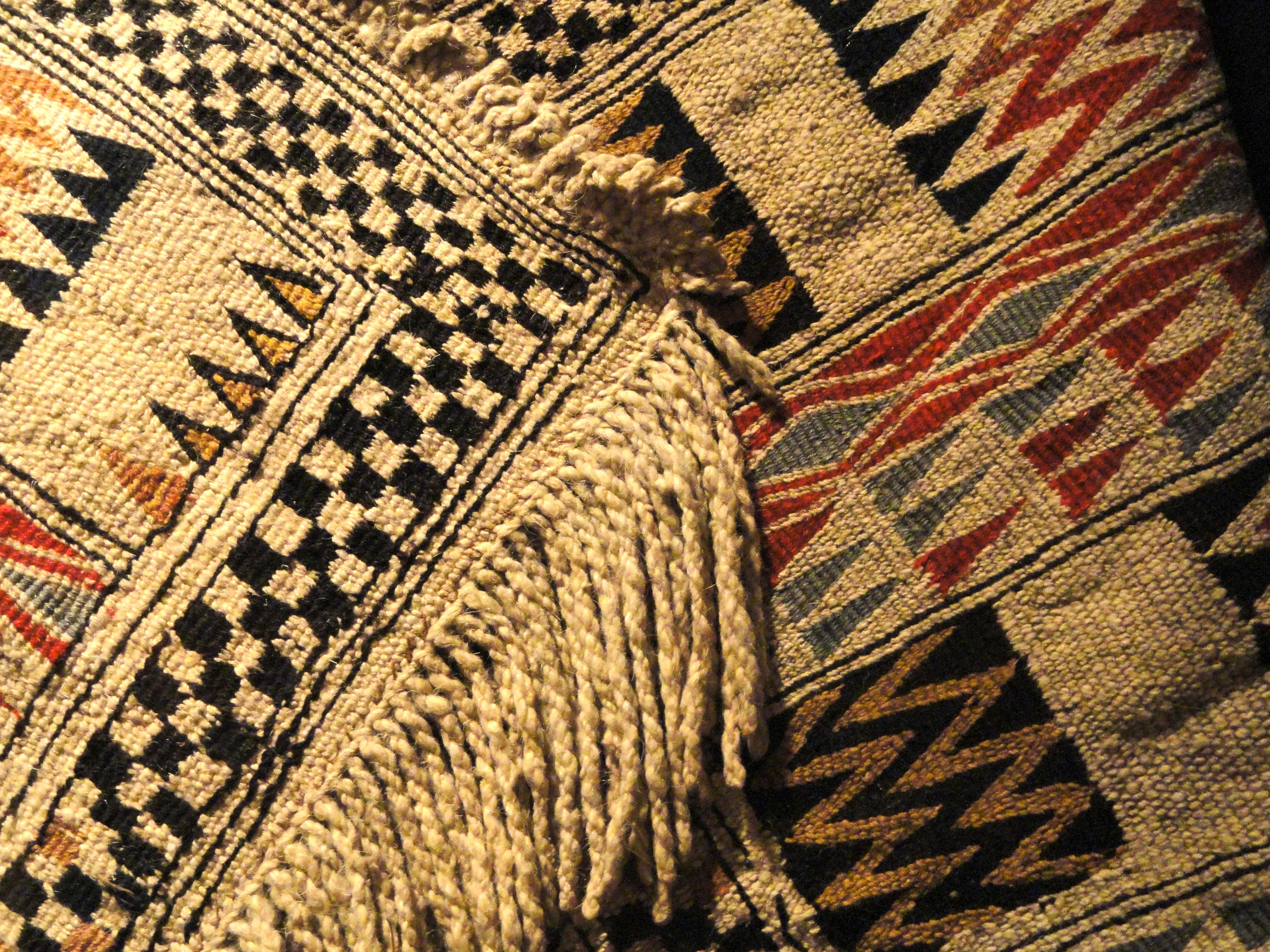 Exhibit in the Museum of Cultures, Helsinki, Finland.